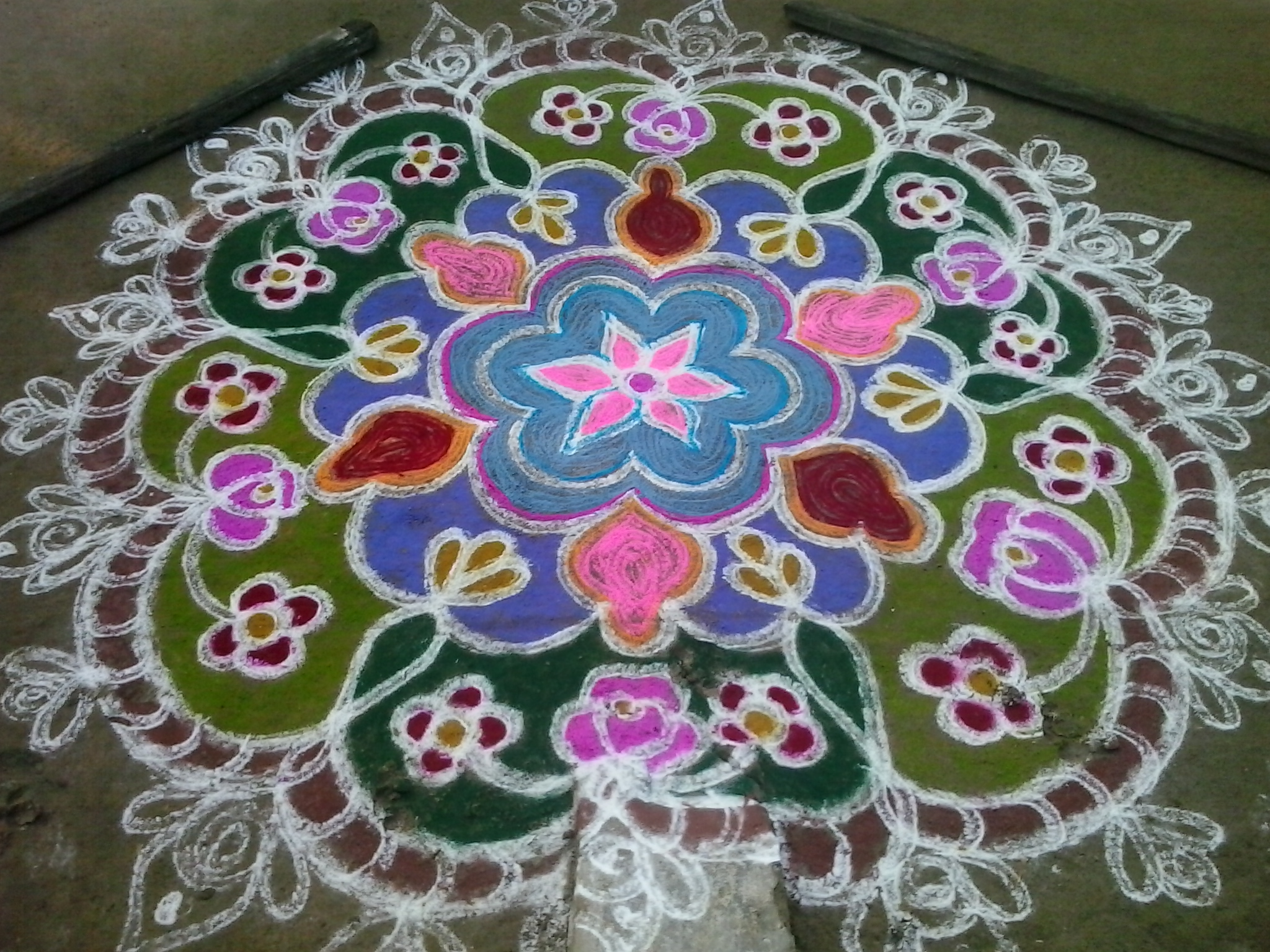 Rangoli by my Mother